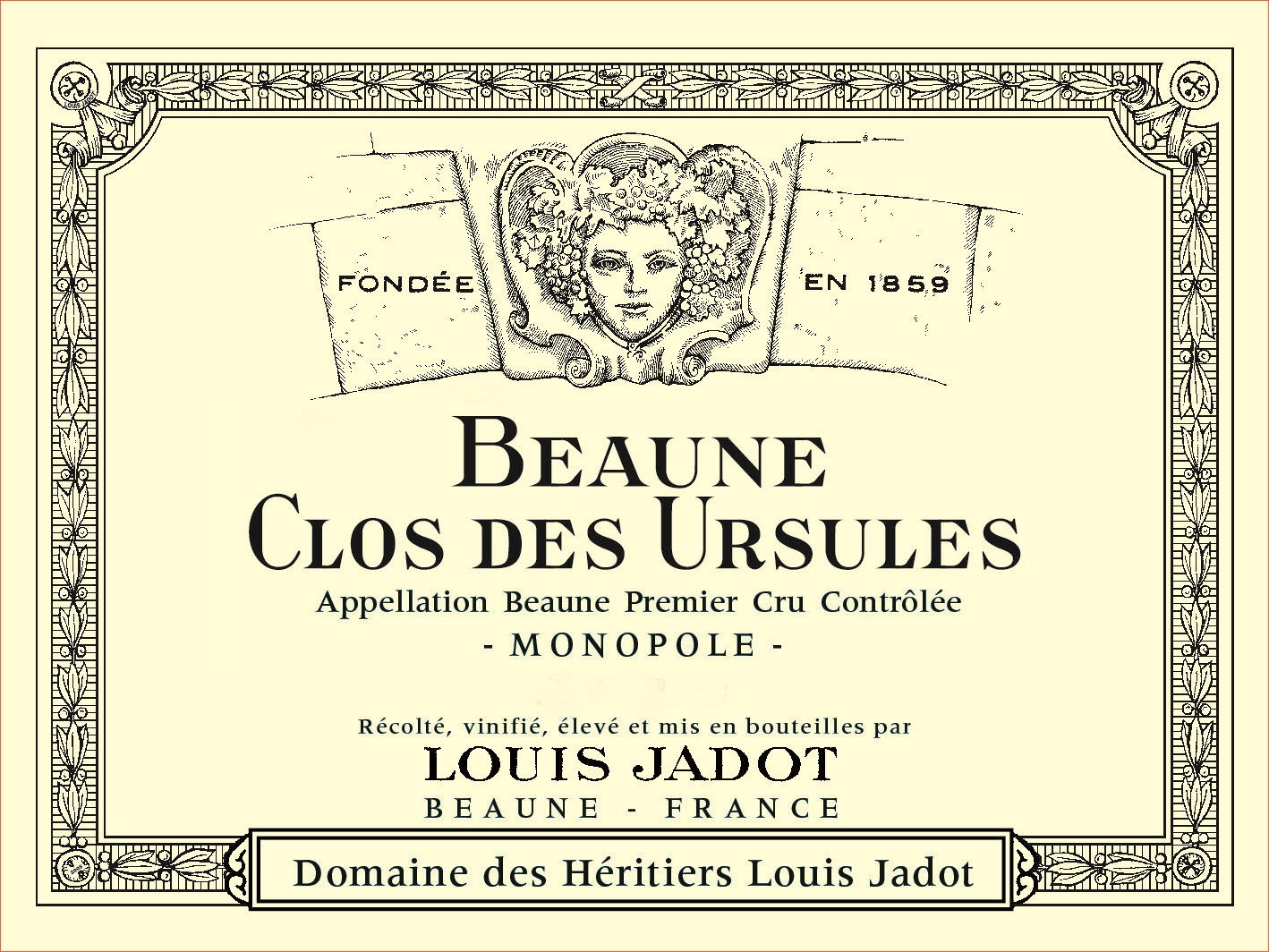 Label Clos des Ursules